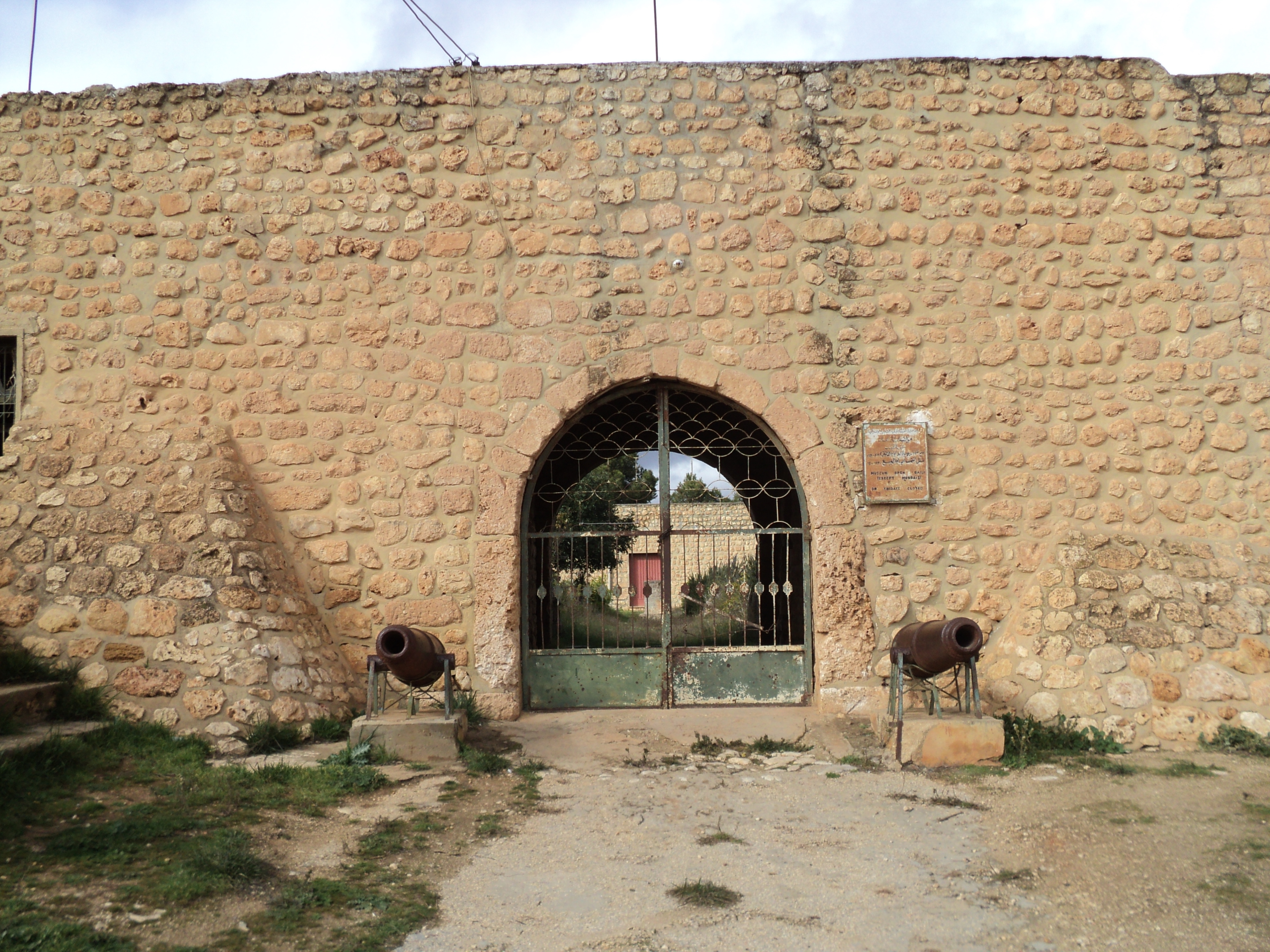 Al Qayqab citadel, Libya.